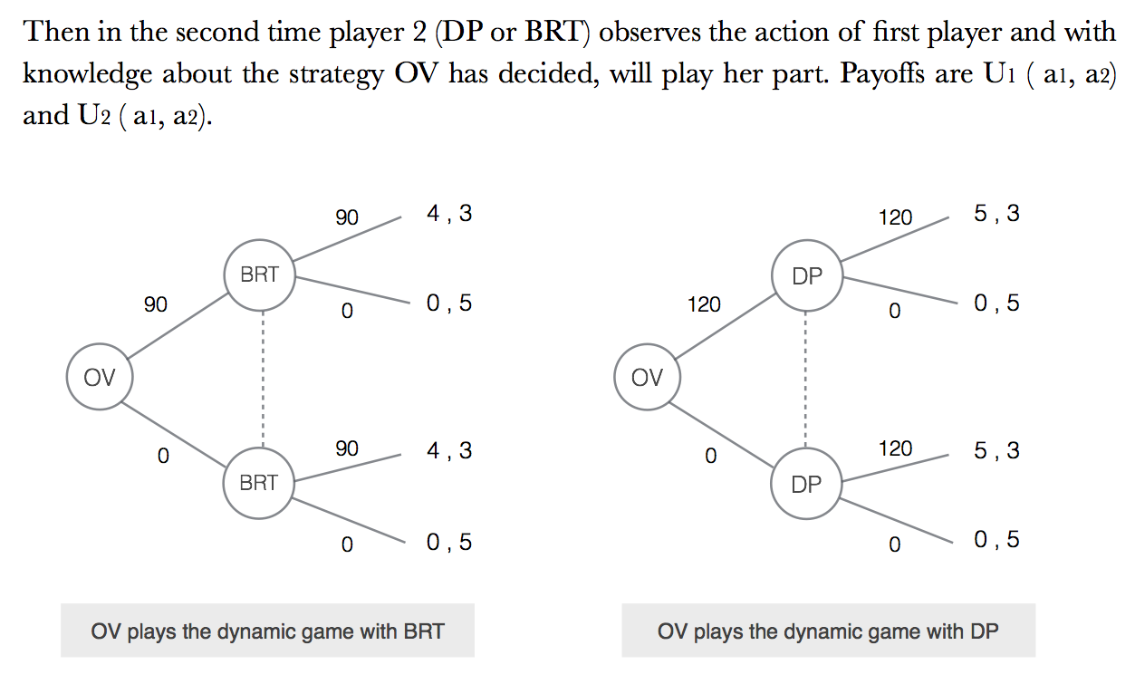 Politecnico di Torino; Student: Sajjad Khaksari; May 9, 2015; OV & DP and BRT; Game Theory, A briefly attempt; Is it possible to modeling one of the reality of Transport&Logistic World, thanks to the famous Game Theory? The main idea to write this paper began with this question.